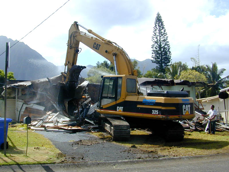 Demolition of a house in Kāne‘ohe, O‘ahu, Hawai‘i.